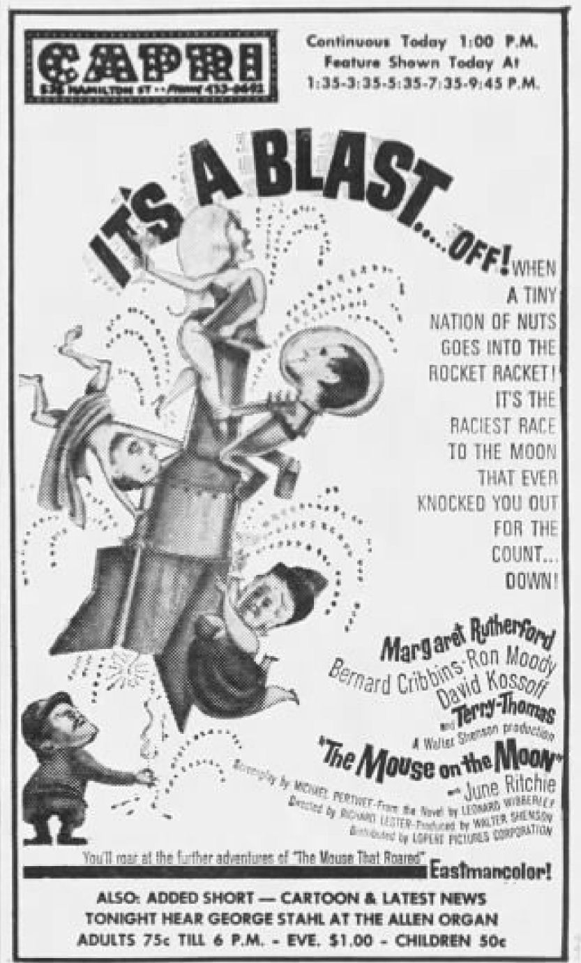 Capri Theater, American advertisement for the British film The Mouse on the Moon (1963) - 26 Oct. 1963 Morning Call, Allentown PA. The newspaper advert does not use any stills or images from the film.